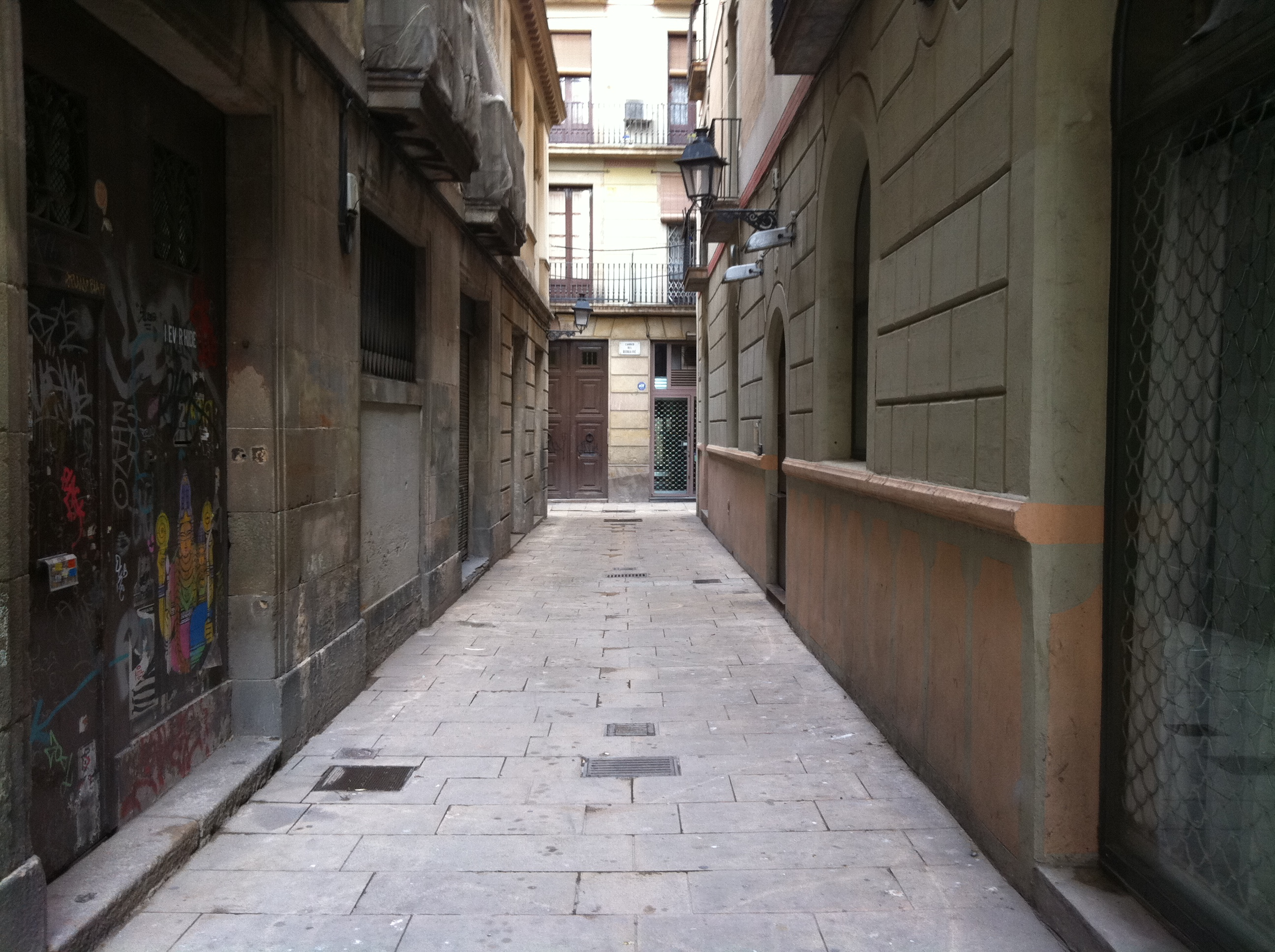 Street of the neighbourhood of La Ribera in Barcelona